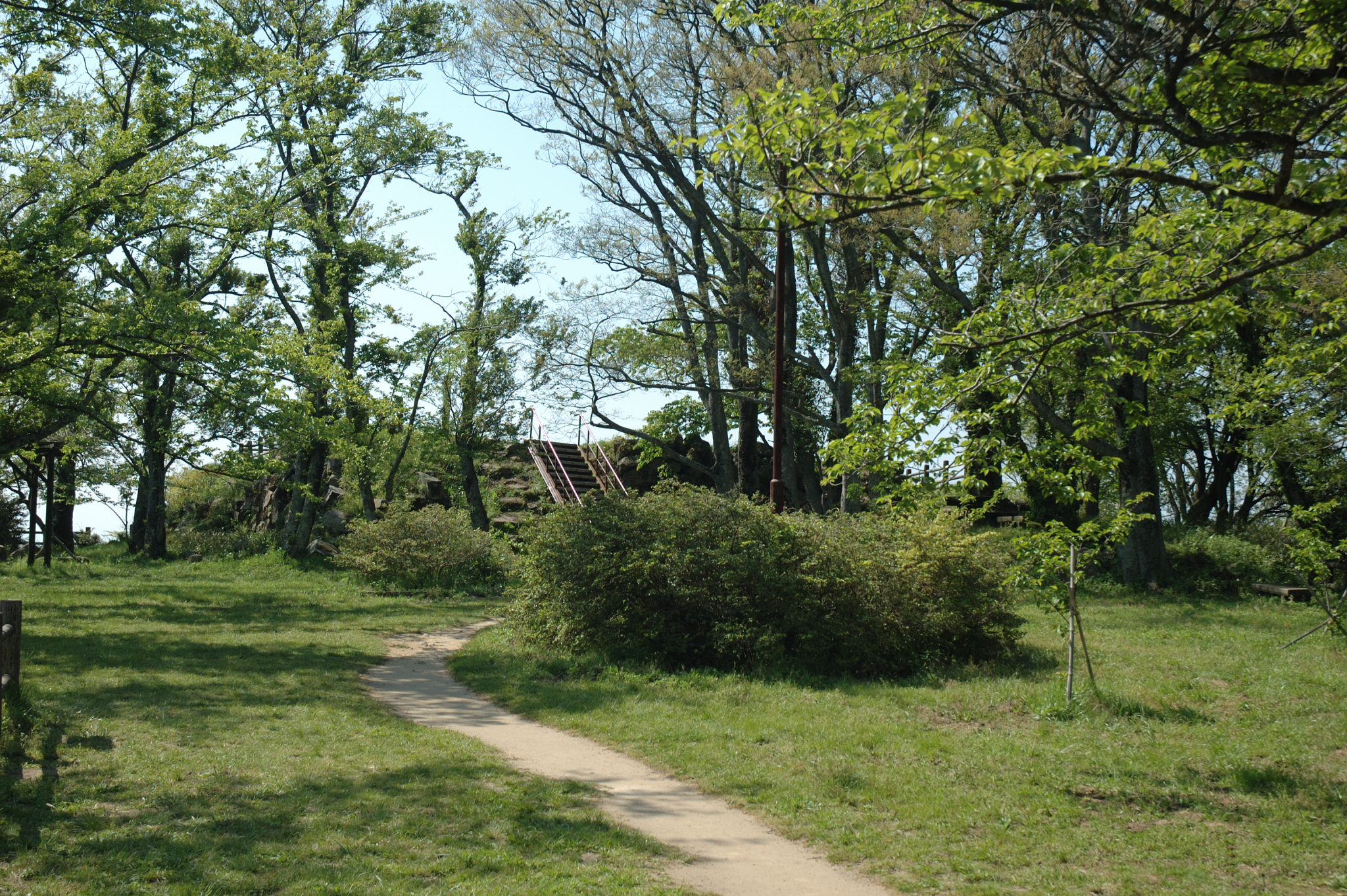 Tottori castle Sanjo-no-maru Hon-maru